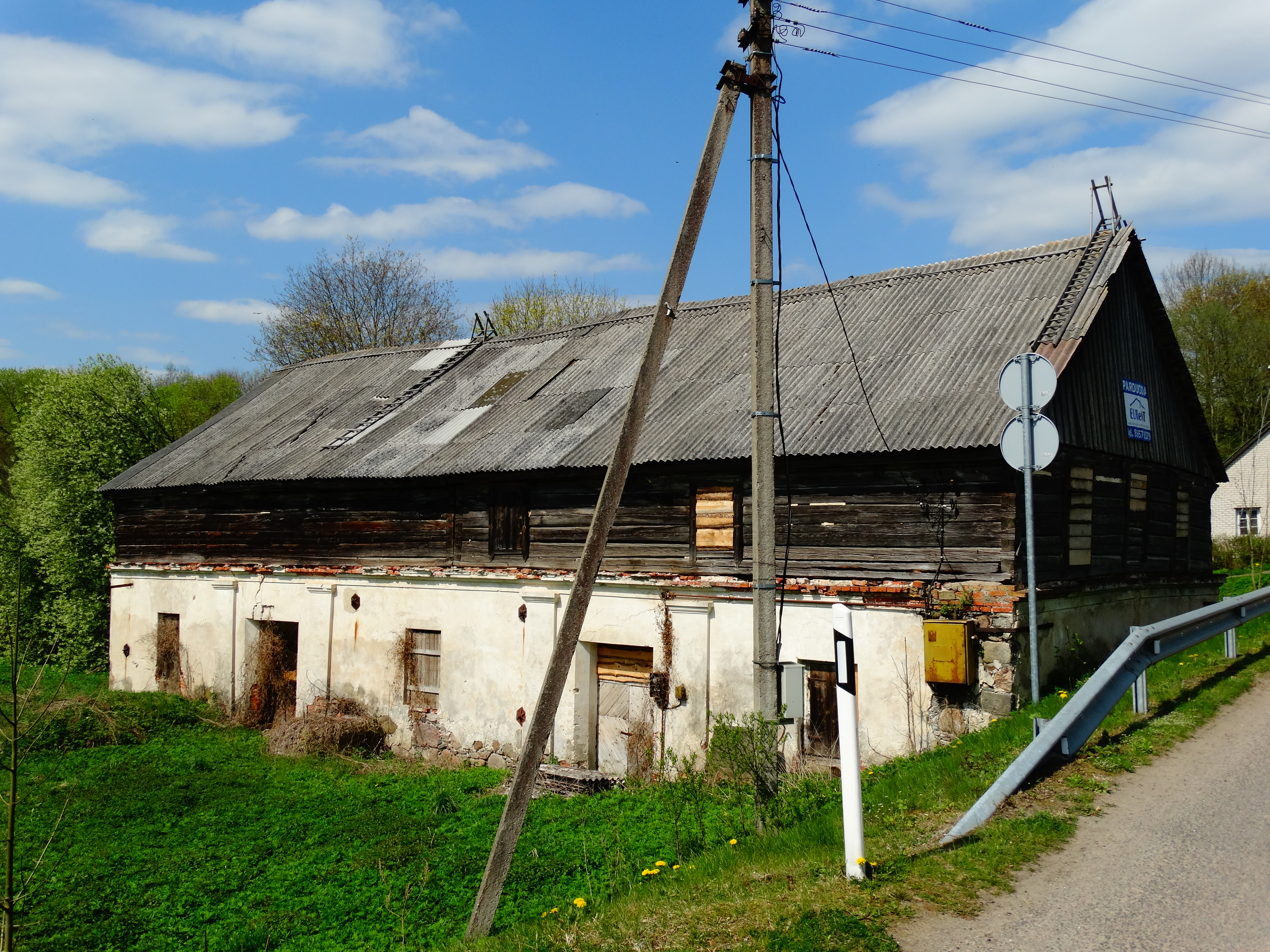 Former watermill in Čiobiškis, Širvintos District, Lithuania